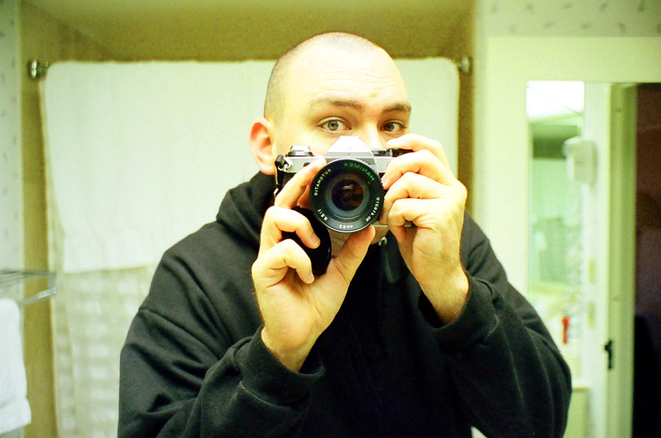 Chris Zabriskie, self-portrait.